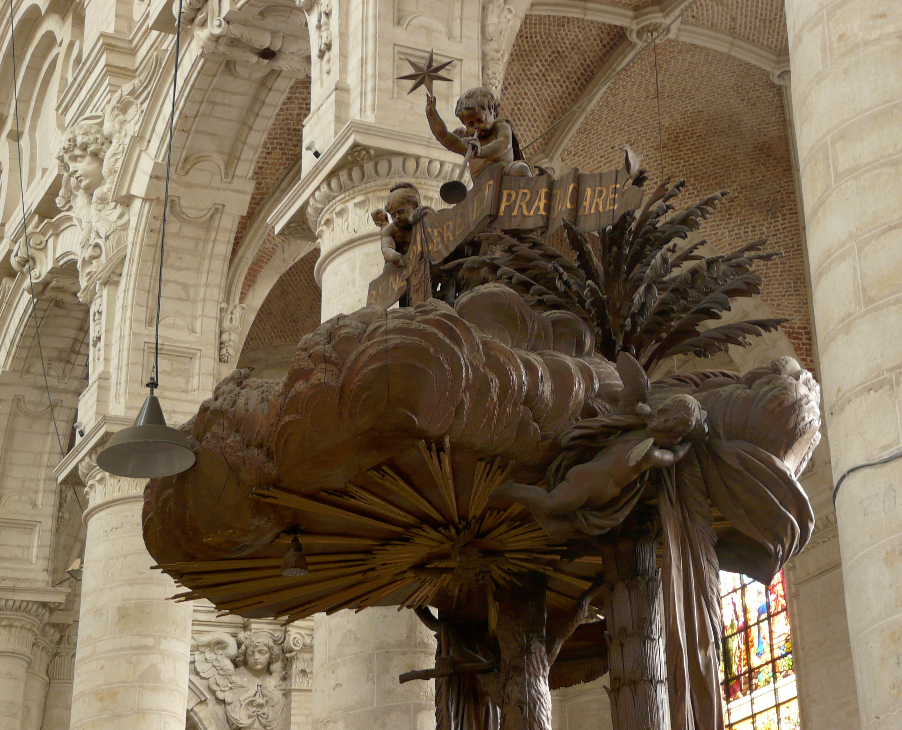 Pulpit in the Saint John the Baptist at the Béguinage (Brussels), the pulpit came from a Dominican church in Mechelen and is attributed to Joseph Lambert Parant based on a design of Egide-Joseph Smeyers of Mechelen, date: 1757